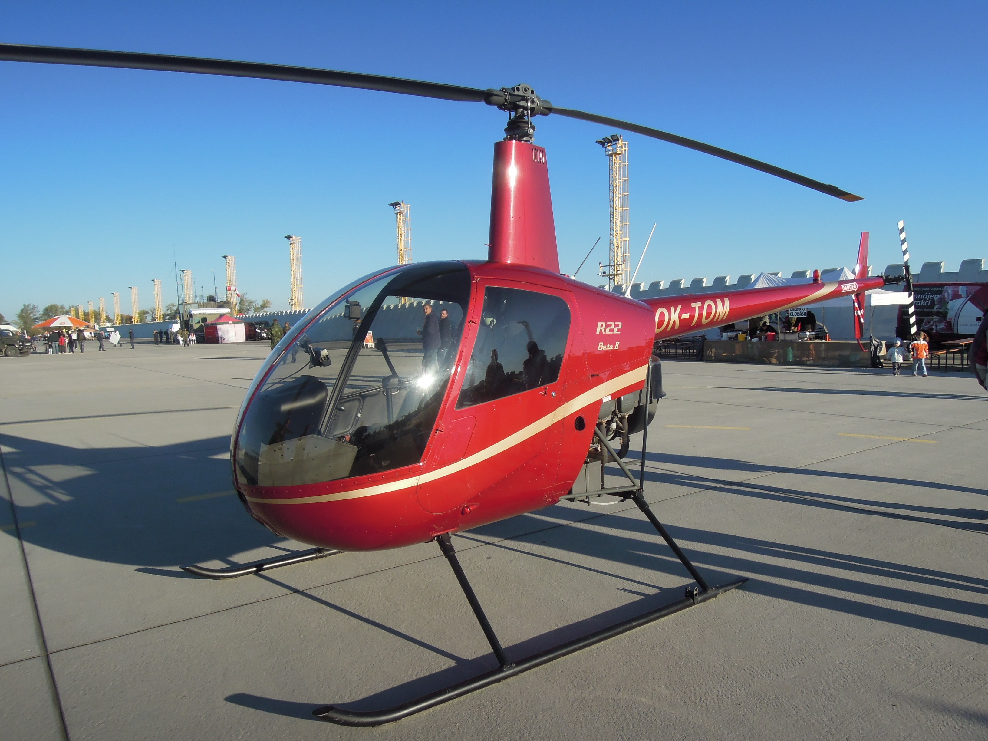 Robinson R22 Beta II helicopter at Náměšť nad Oslavou airport base, Náměšť nad Oslavou, Vysočina Region, Czech Republic